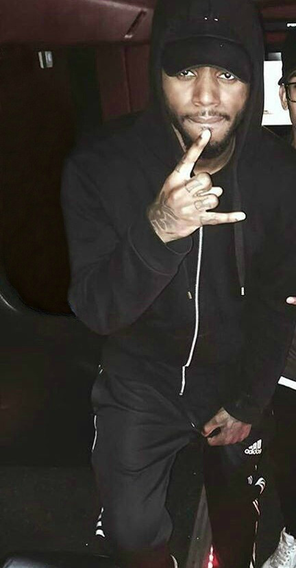 Singer Bryson Tiller